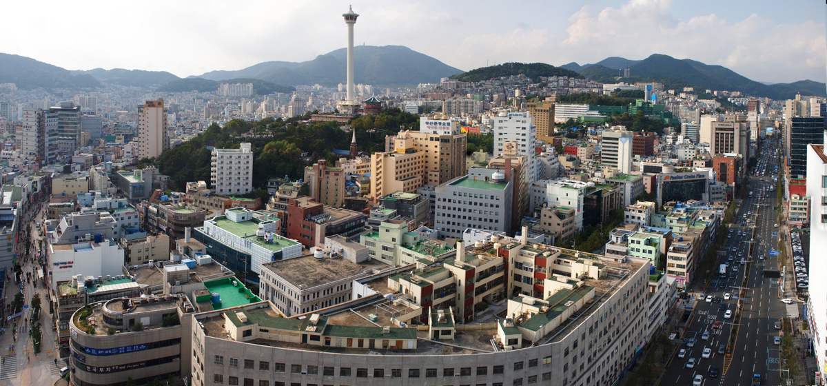 Panoramic view of Busan, with Busan Tower in the middle. South Korea.